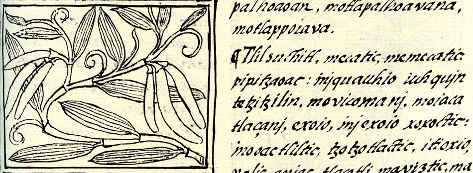 Drawing of vanilla from the florentine codex (made in the 1580s)